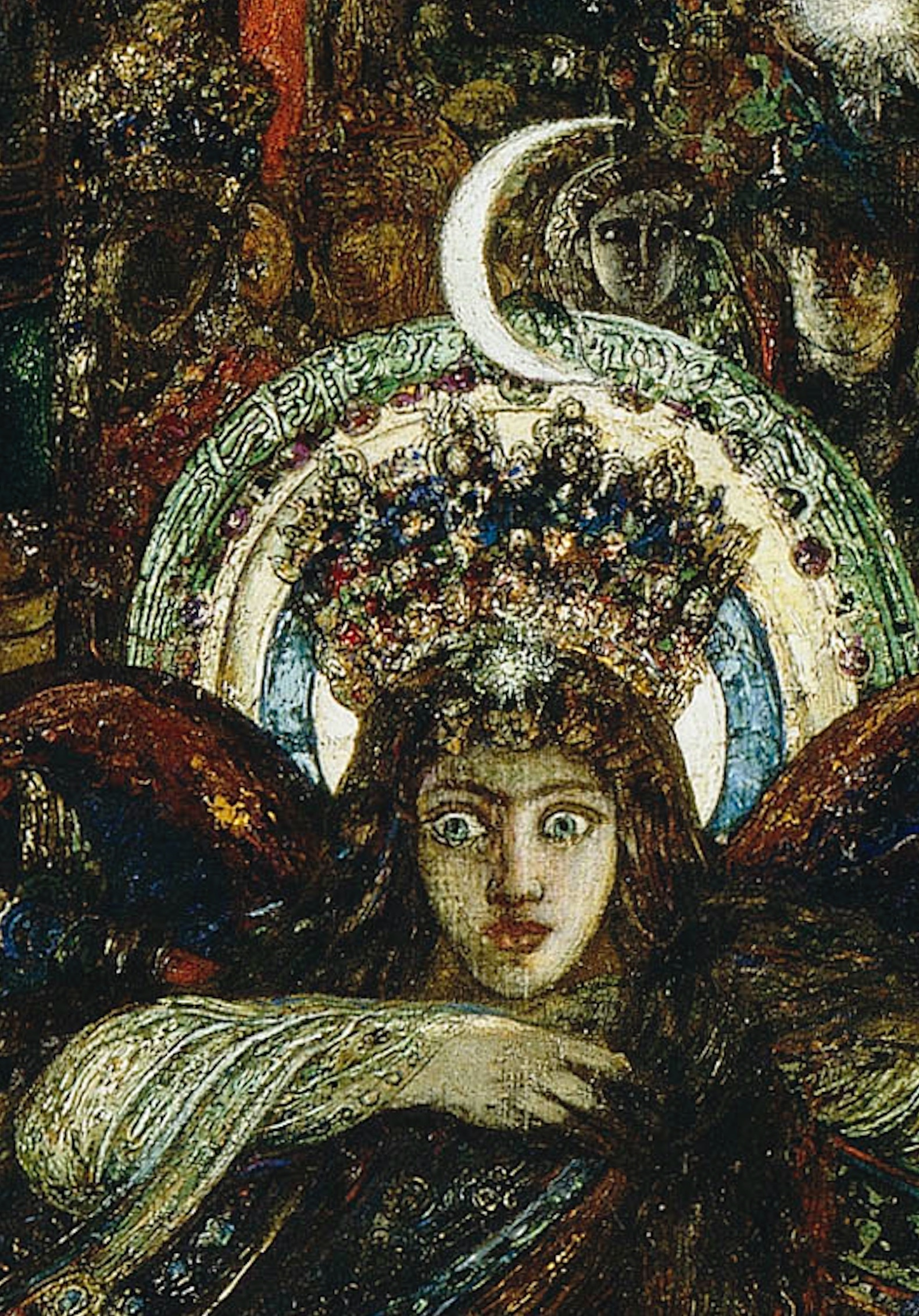 A frightful Hecate, with her polos and crescent moon, in the lower left corner of the painting Jupiter and Semele by Gustave Moreau.